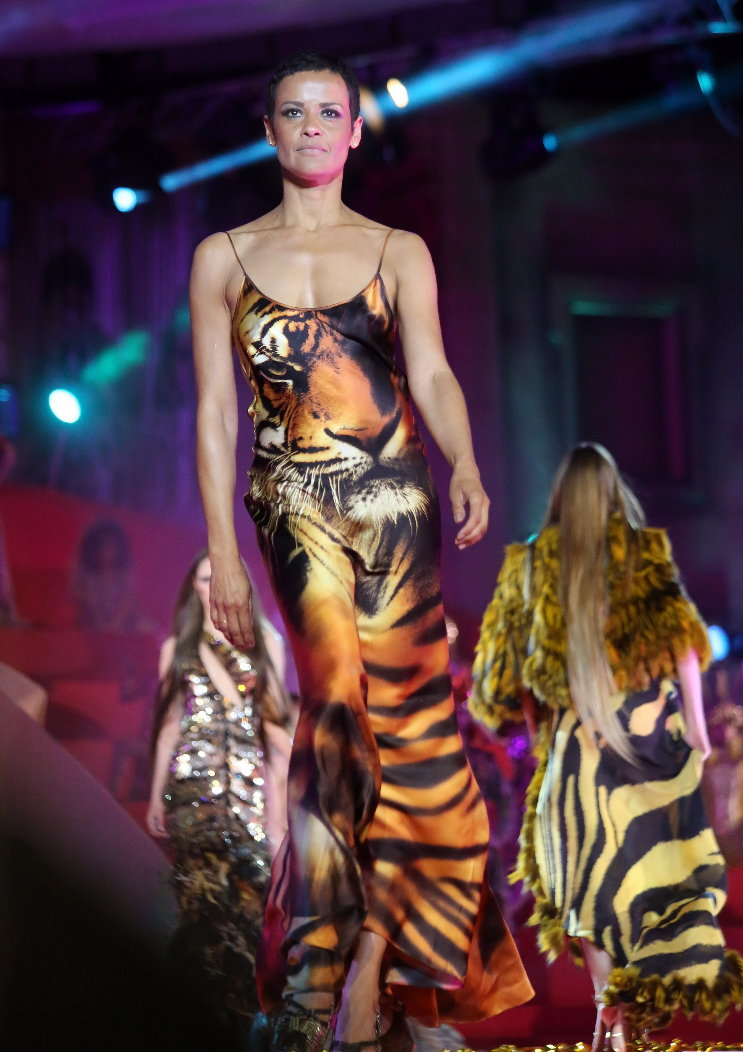 Nadège du Bospertus, fashion show by Roberto Cavalli, opening of Life Ball 2013 at the city hall of Vienna, Vienna, Austria.